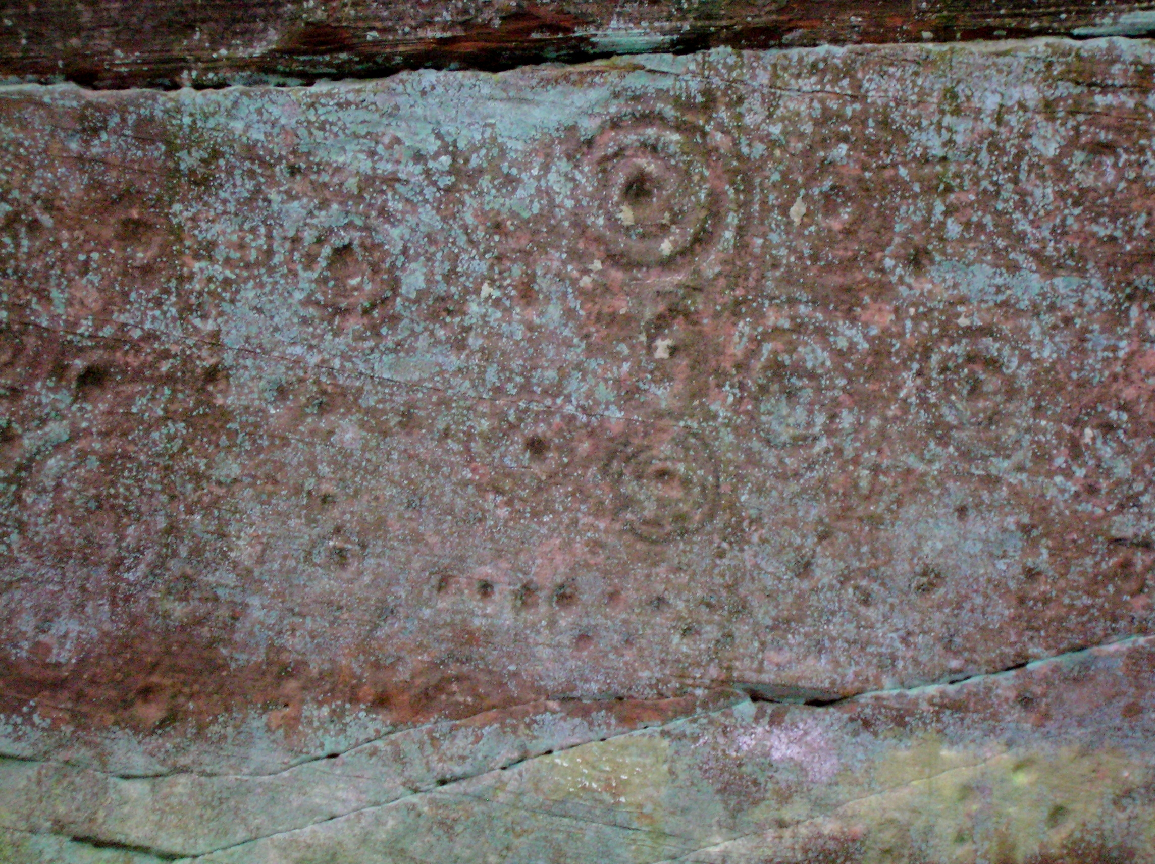 Cup and ring marked stone at Ballochmyle, Mauchline, East Ayrshire, Scotland.